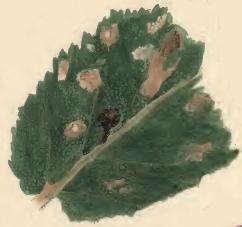 Stainton’s Natural History of the Tineina (1855–1873): Coleophora virgatella mined leaf of Salvia pratensis with larva-case attached